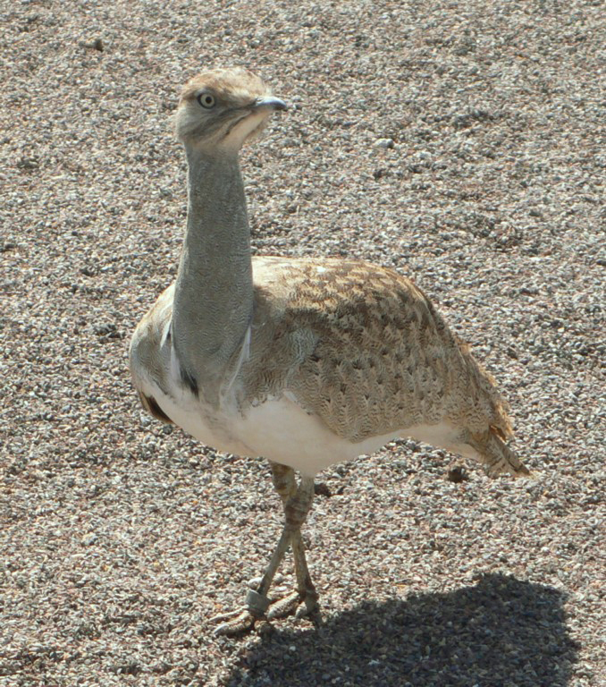 Houbara Bustard, Morocco. Bird in breeding and conservation programme